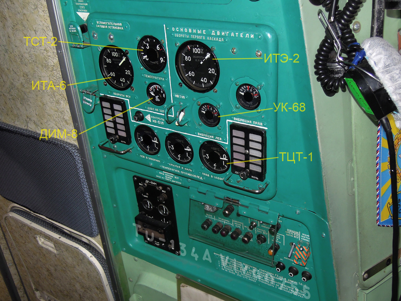 Engines control and APU gauges panel of Tupolev Tu-134 aircraft